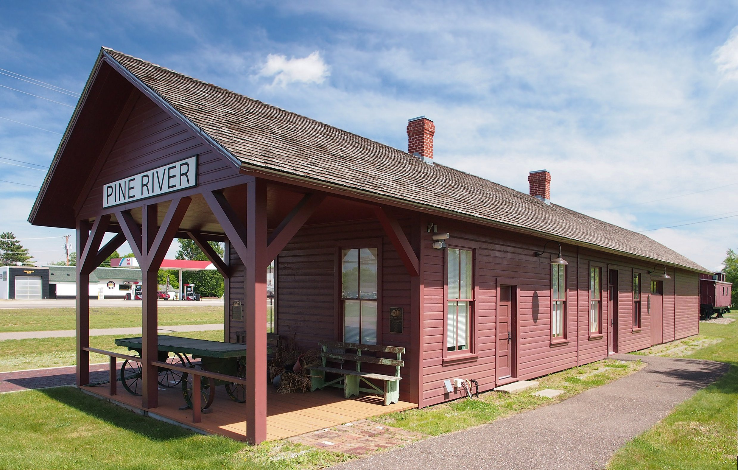 Pine River Depot, 102 Barclay Ave W, Pine River, Minnesota, USA. Viewed from the west.